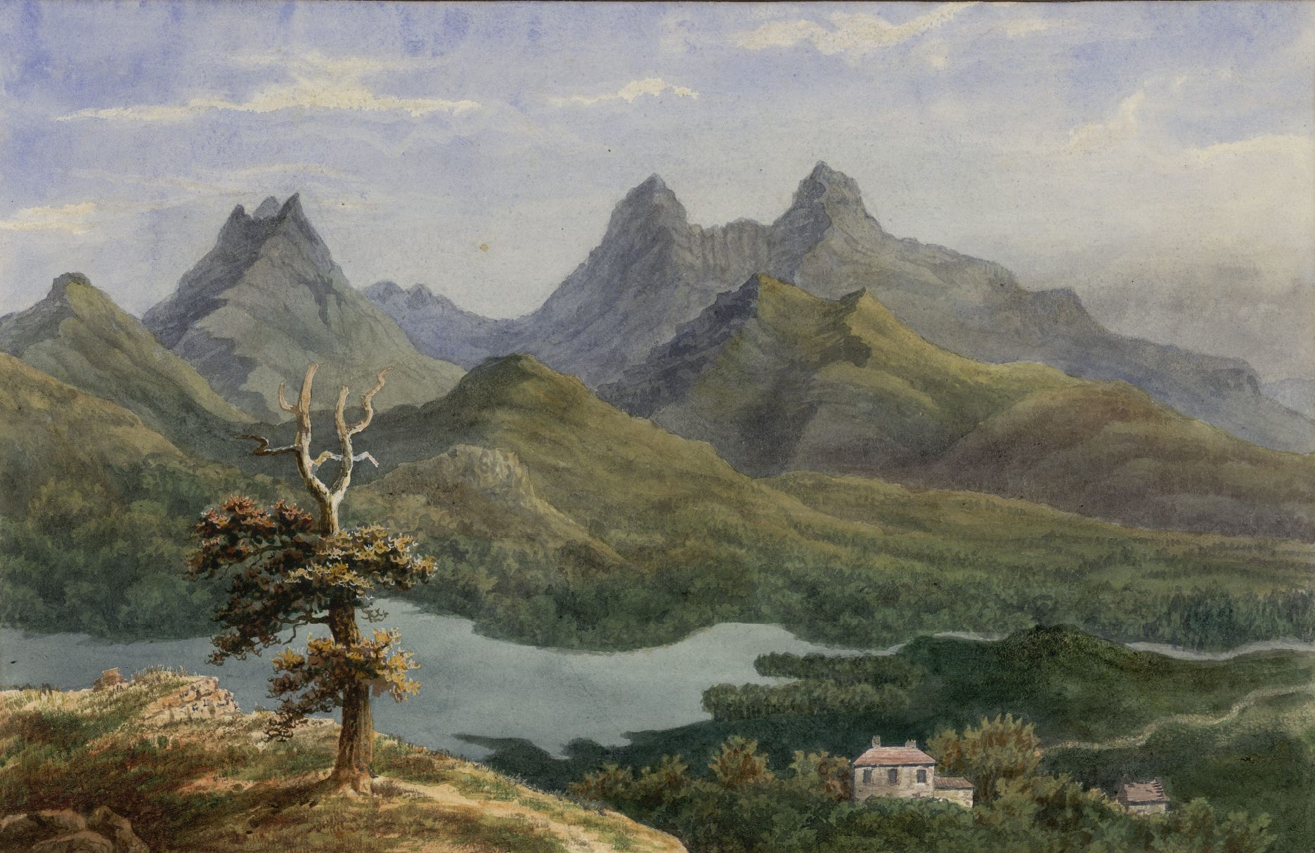 Numerous drawings and landscapes of villages, towns and landmarks in Wales and Ireland. By French artist Alphonse Dousseau.